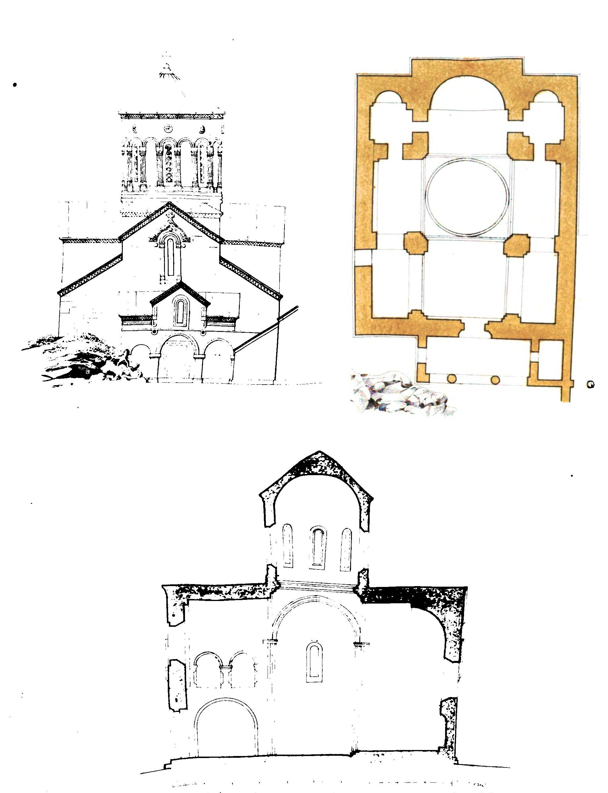 Sapara monastery, an illustration from "Géorgie", in: Grimm, David Ivan (1864). Monuments d'architecture en Géorgie et en Arménie. St. Petersbourg: A. Beggrow.